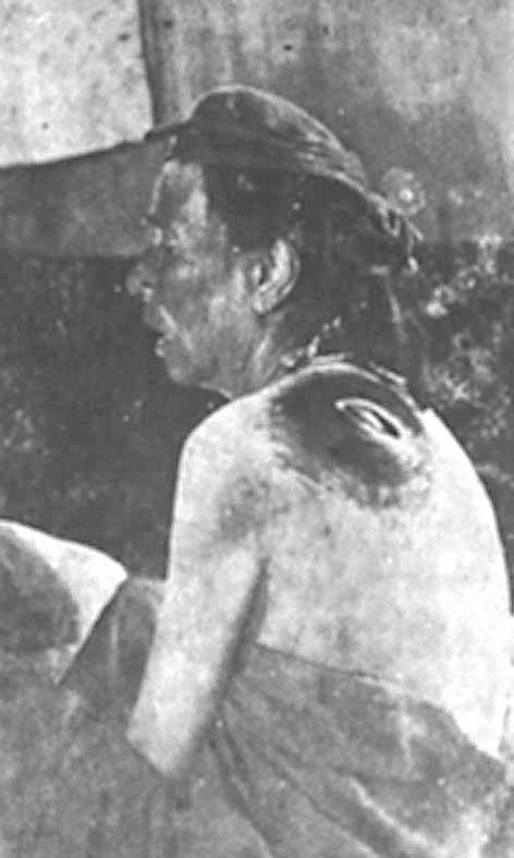 Fatma, wife of Kara Ahmet Ömer, with a bayonet wound inflicted by Greek soldiers.